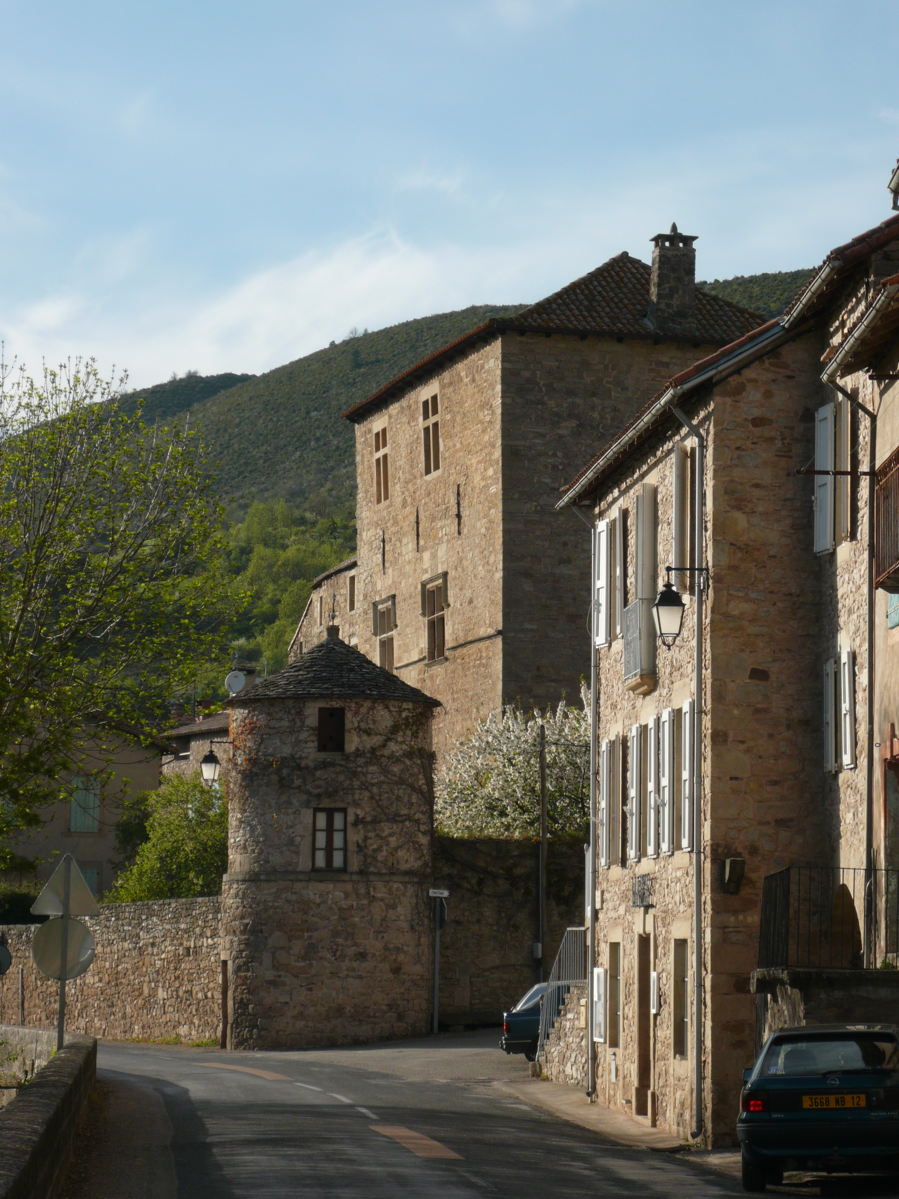 Castle of Versols, house of "de Roquefeuil-Versols" family.